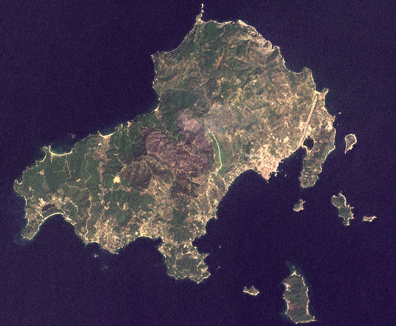 Satellite image of Skiathos, Greek island in the Aegean sea